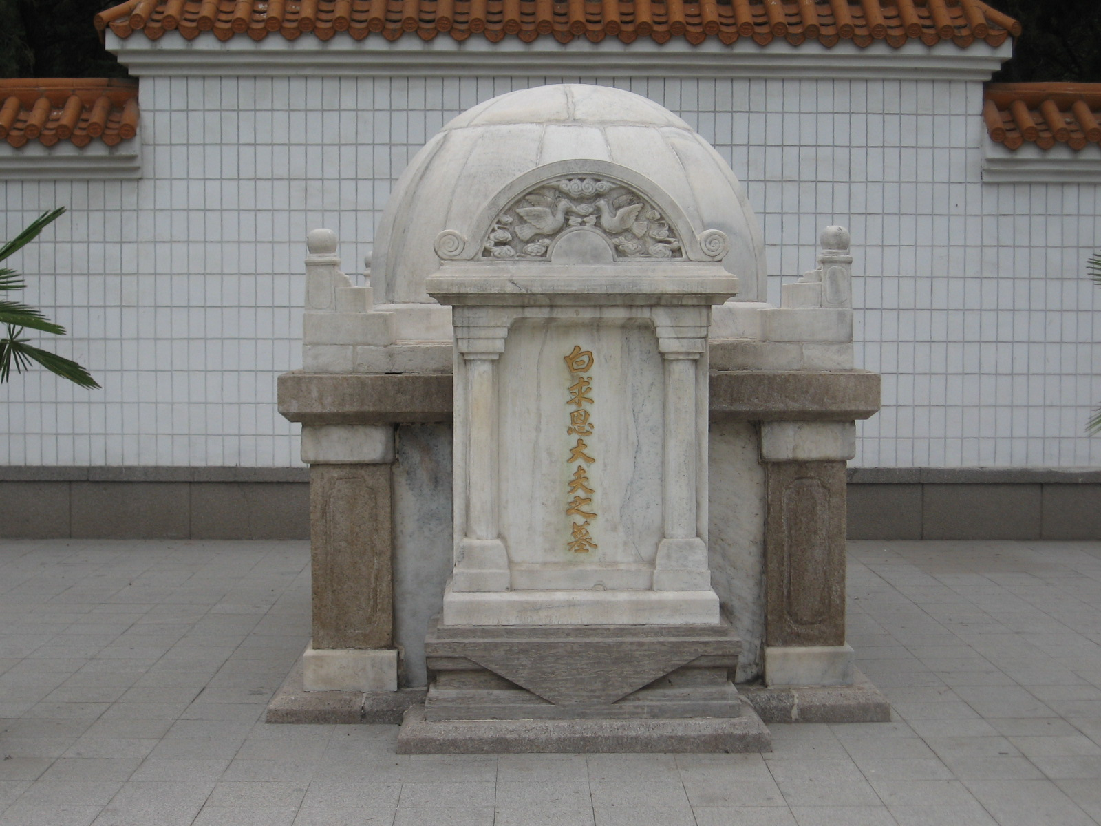 The tomb of Norman Bethune in Shijiazhuang Hebei,China.中国河北省石家庄市华北军区烈士陵园内的白求恩墓。